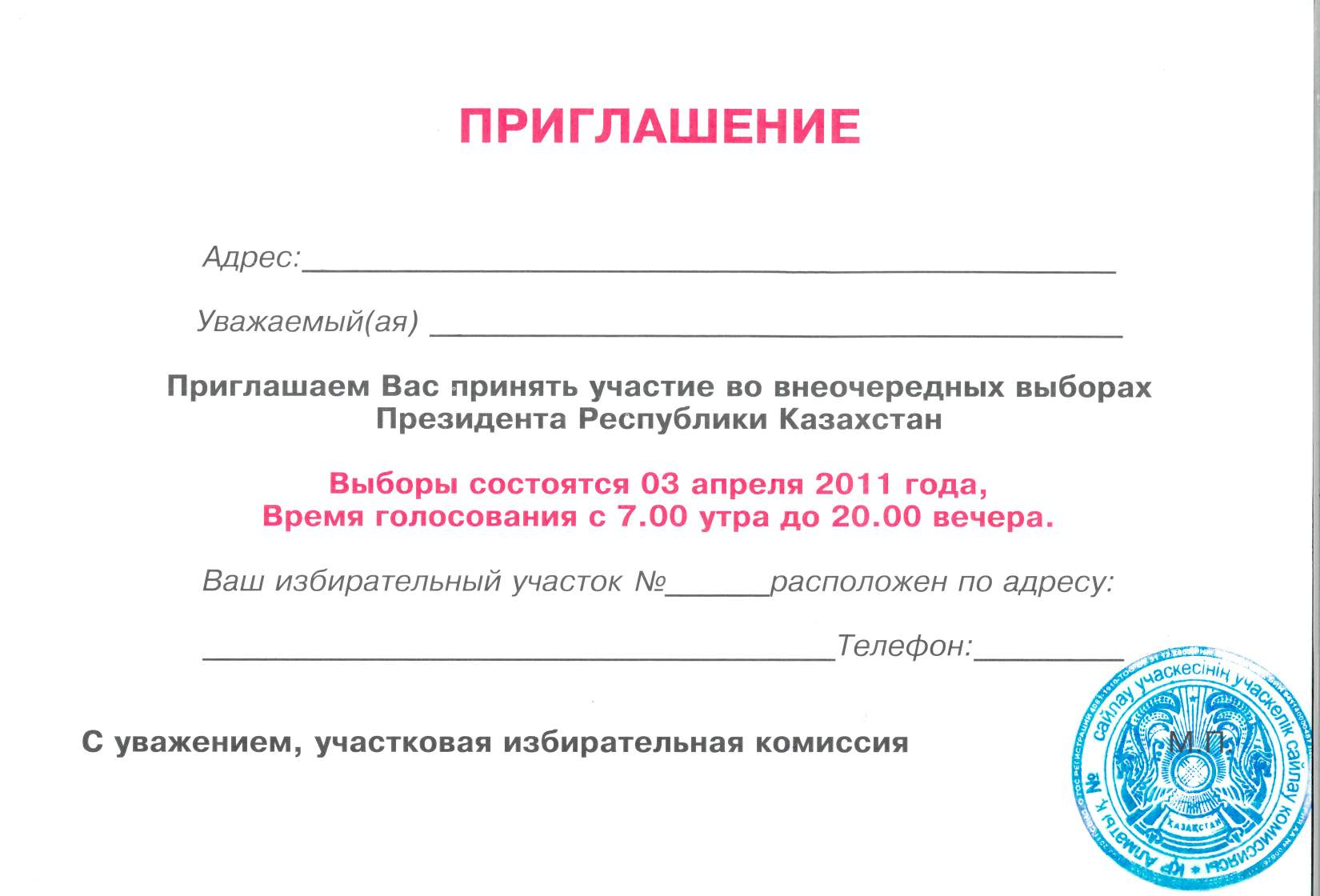 The invitation sheet for voting participating in 2011 Kazakhstan Presidential Election